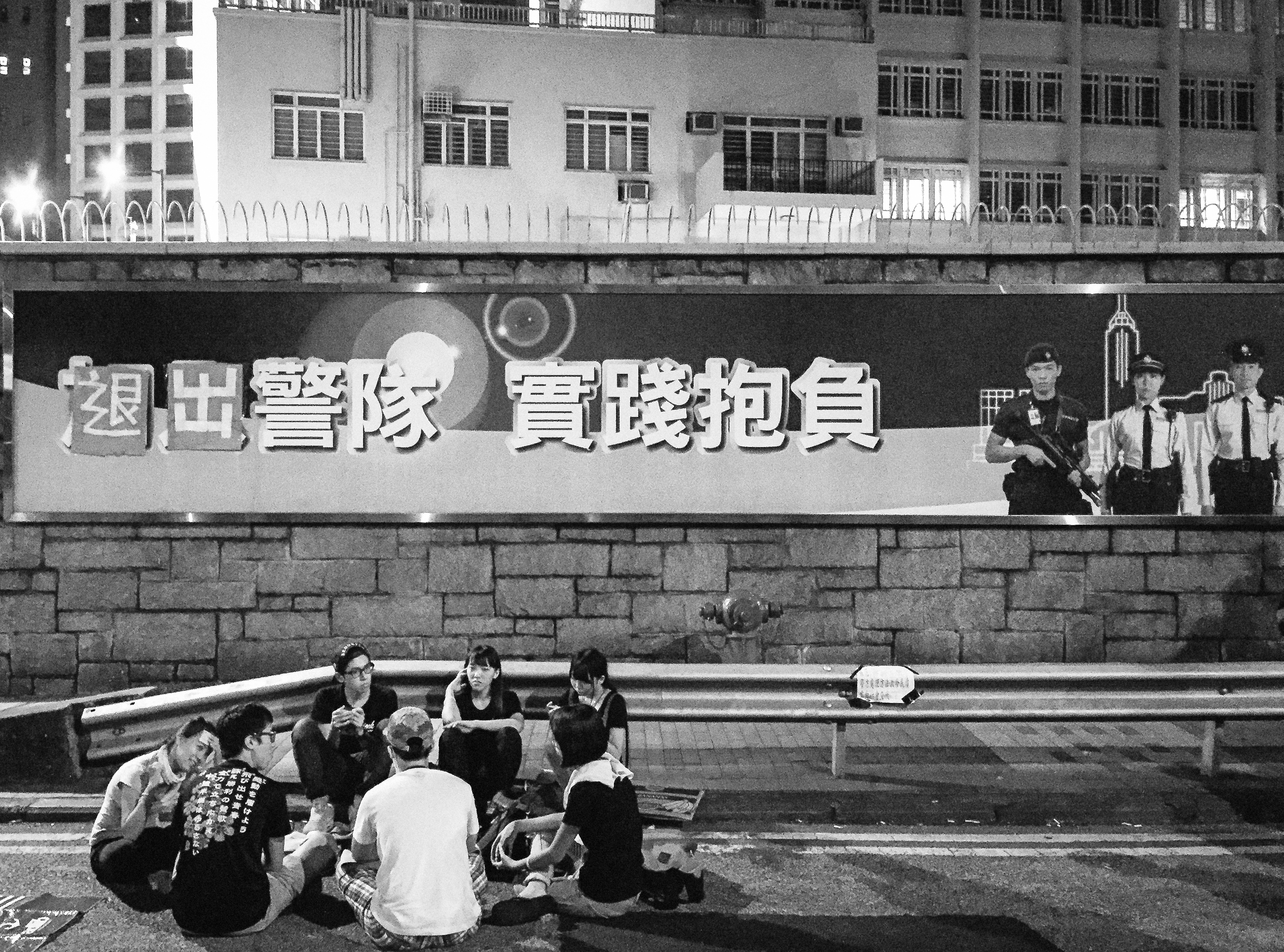 Pasu Au Yeung